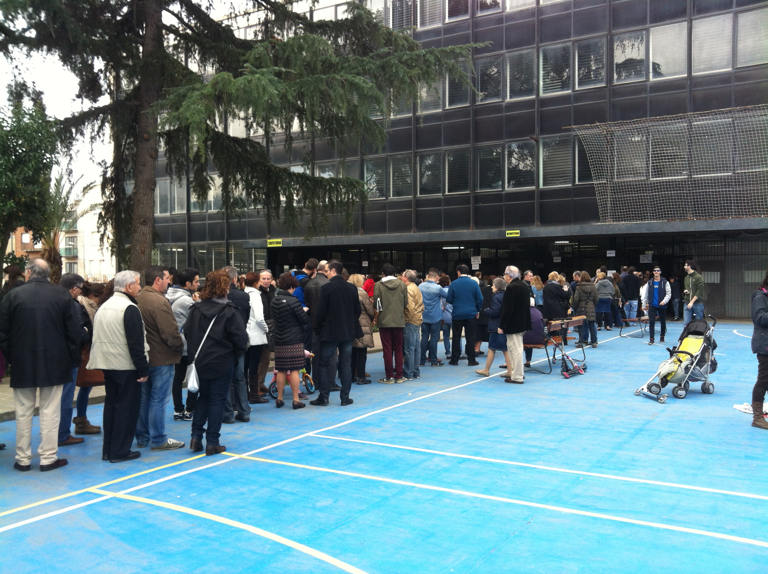 Catalan self-determination referendum, 2014 in Sabadell